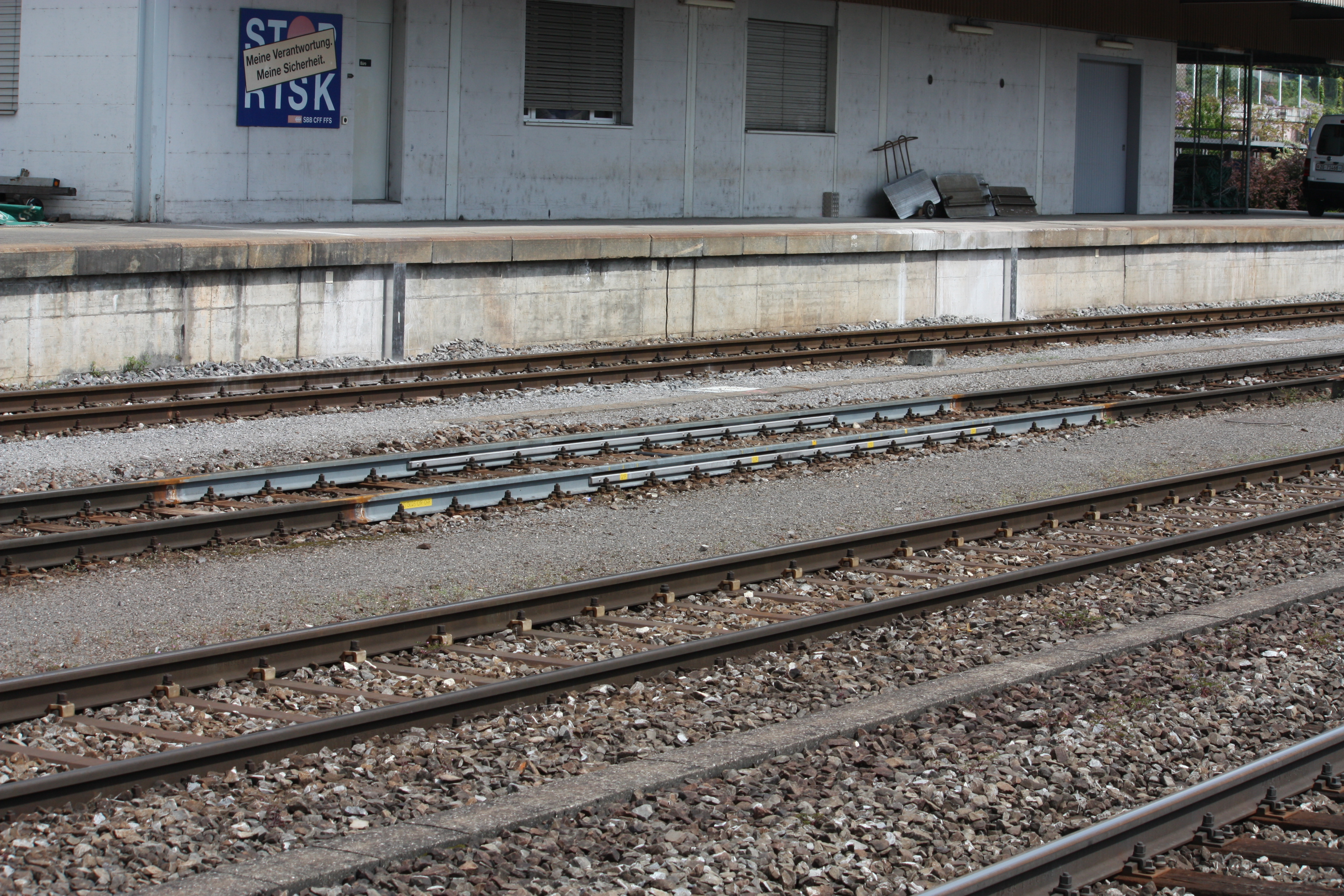 Rotkreuz train stationDynamic rolling stock scale